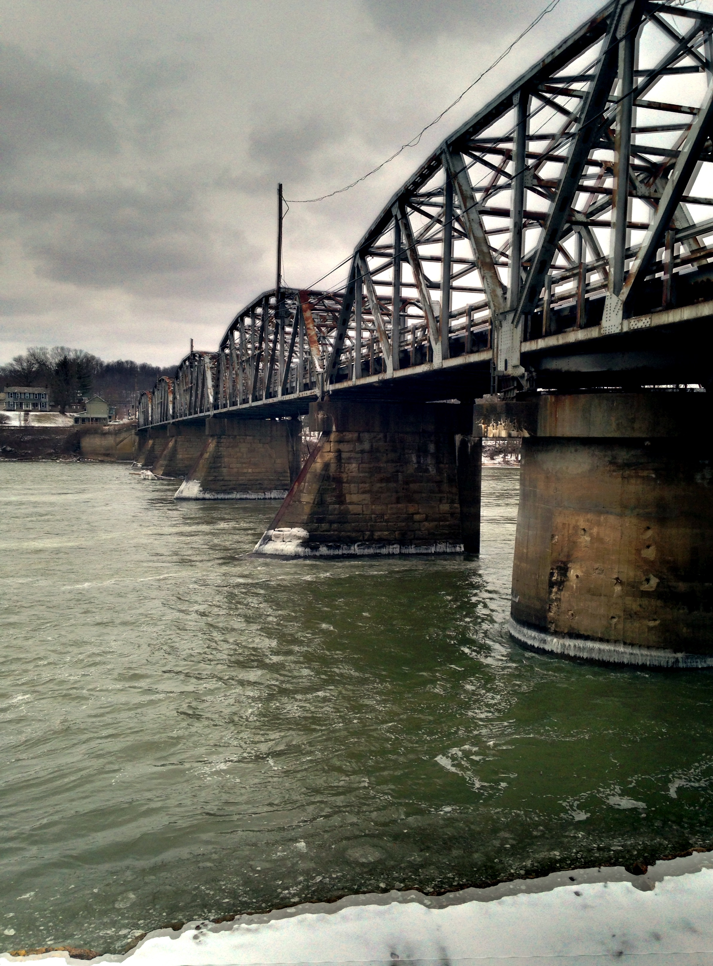 Looking northward along the upstream side of the Muskingum River bridge between Philo and Duncan Falls in Muskingum County, Ohio, United States. It was built in 1953.